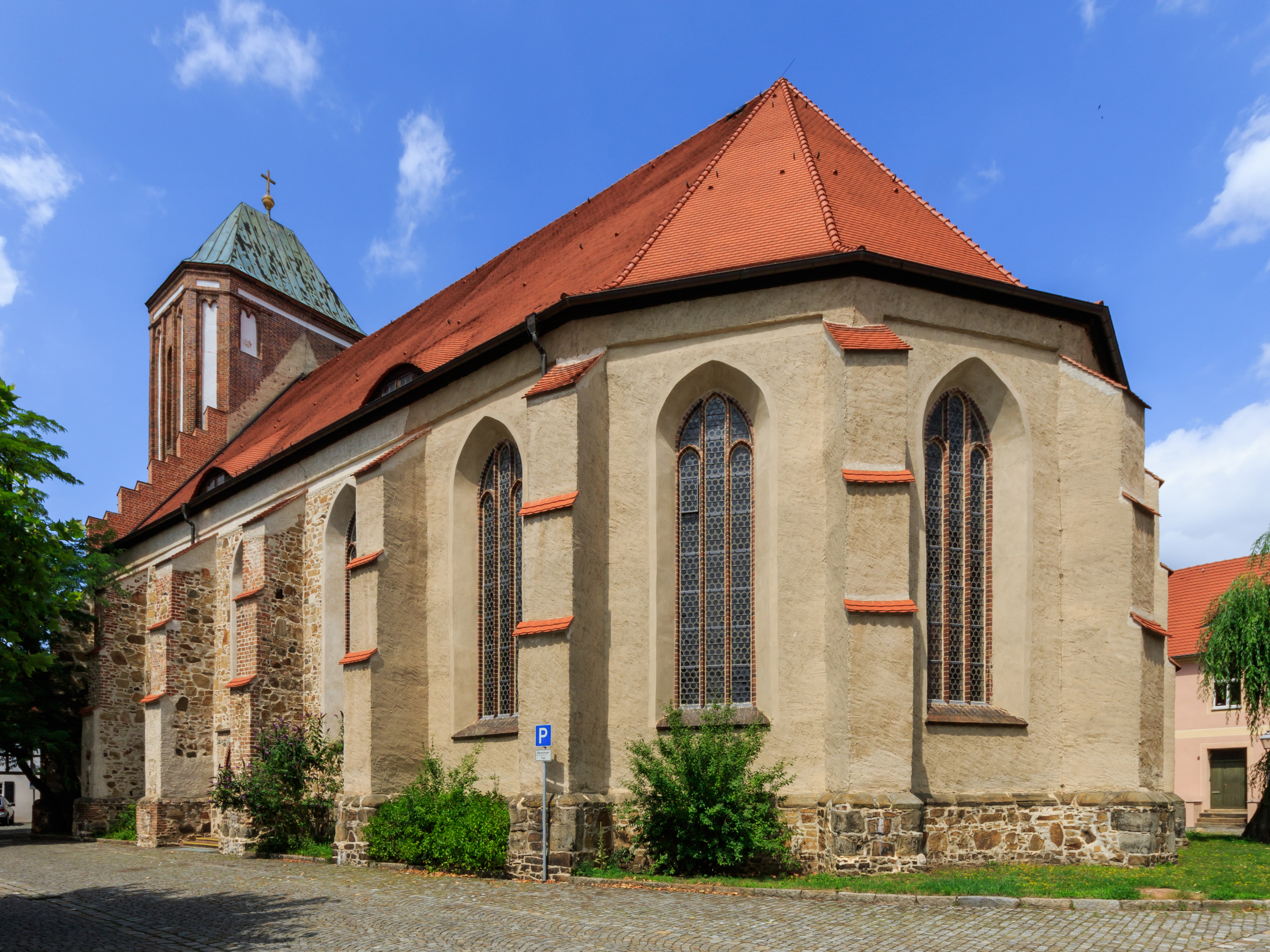 Peter and Paul Church in Senftenberg, Brandenburg, Germany